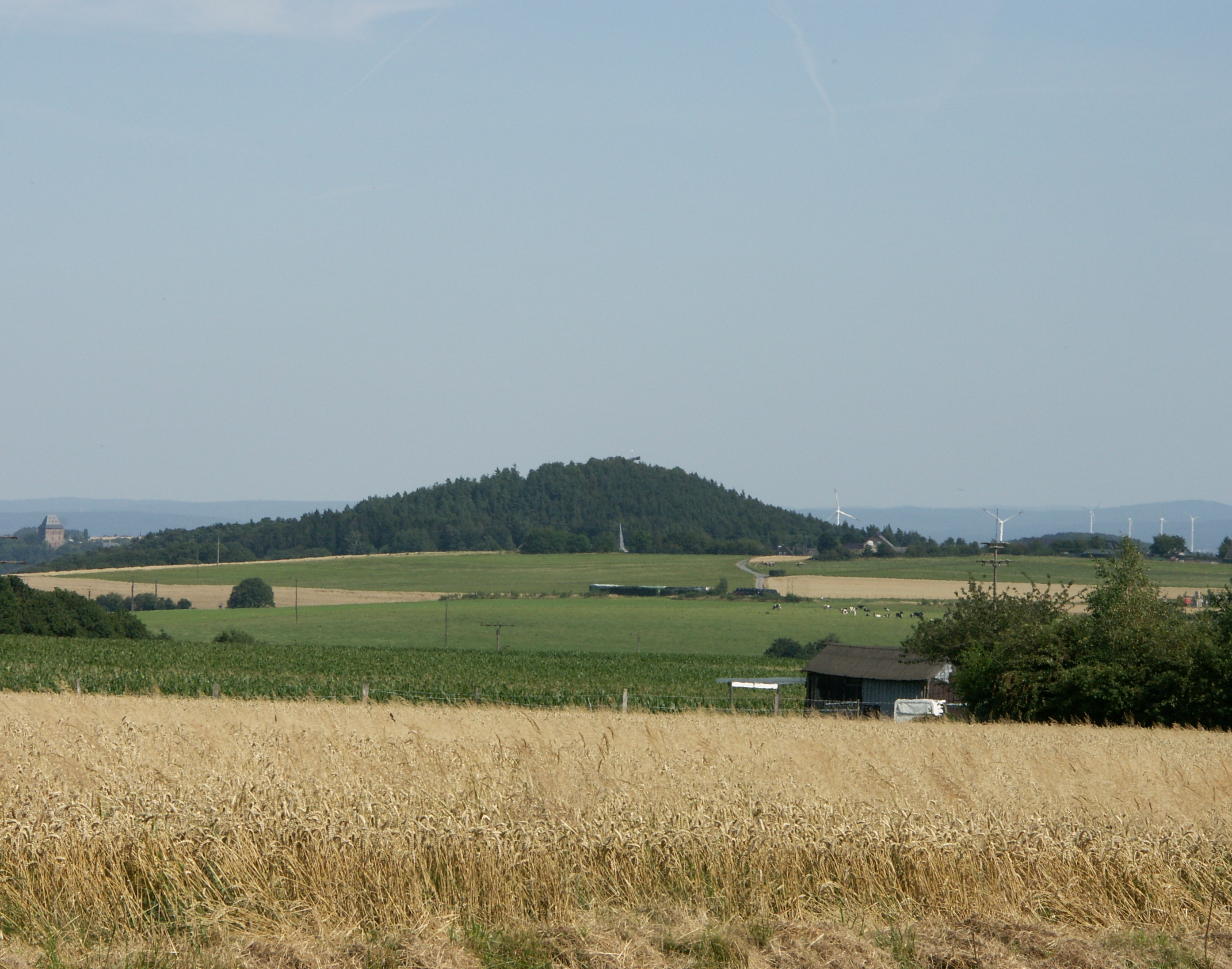 Burgberg Hürtgenwald, Germany, as seen from the village of Brandenberg. The grey object in front of the Burgberg is the steeple of Bergstein. In the left of the photograph you can see Burg Nideggen (the castle of Nideggen) in the distance. The Burgberg was called Hill 400 by the Allies in World War II.